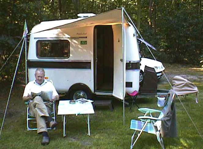 Bambino 300